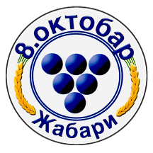 Coat of arms of Žabari